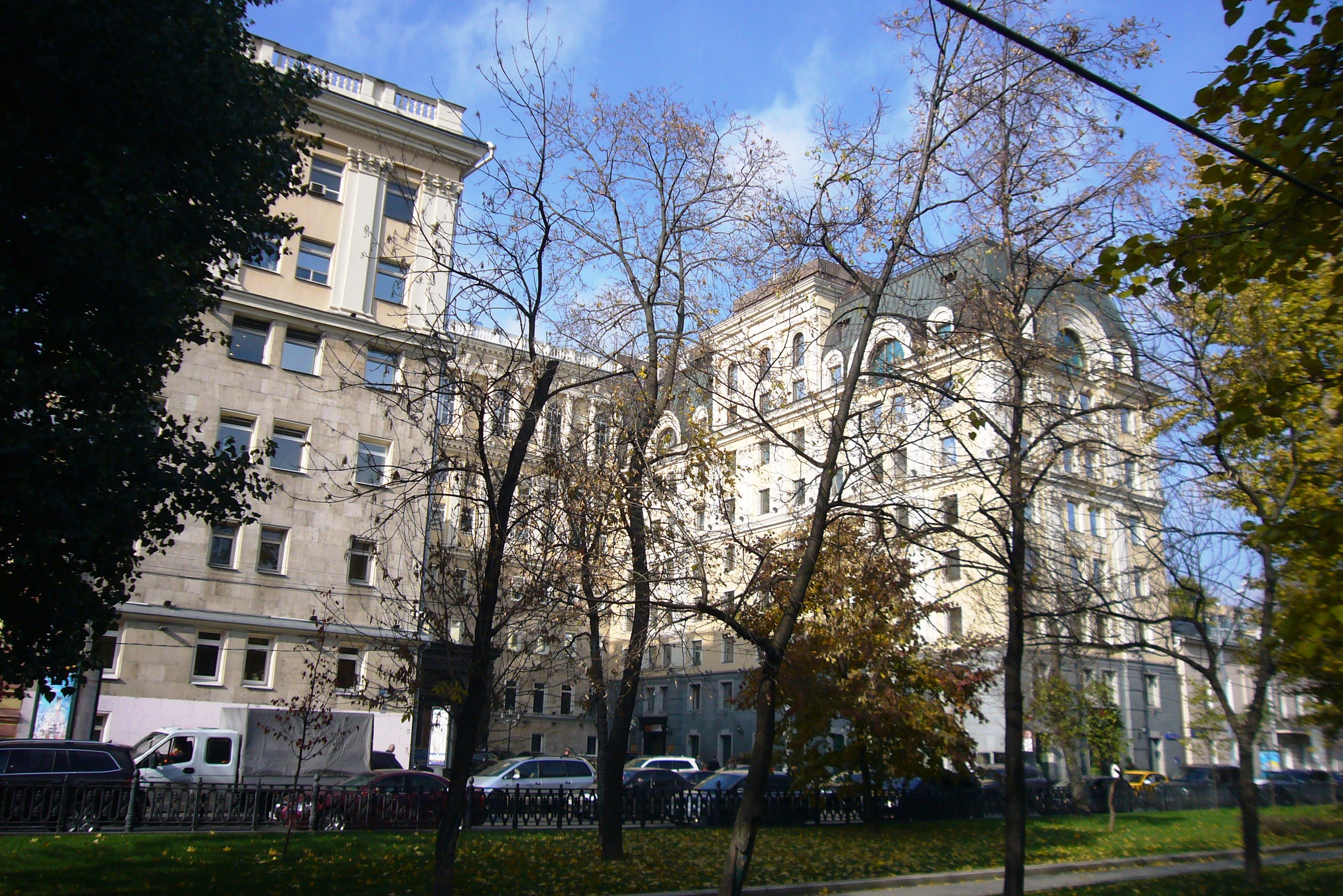 Building at Tverskoy Boulevard 13 in October 2014.